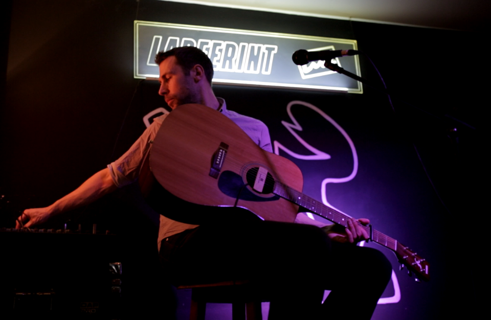 Simon Kempston in Serbia - March 2018